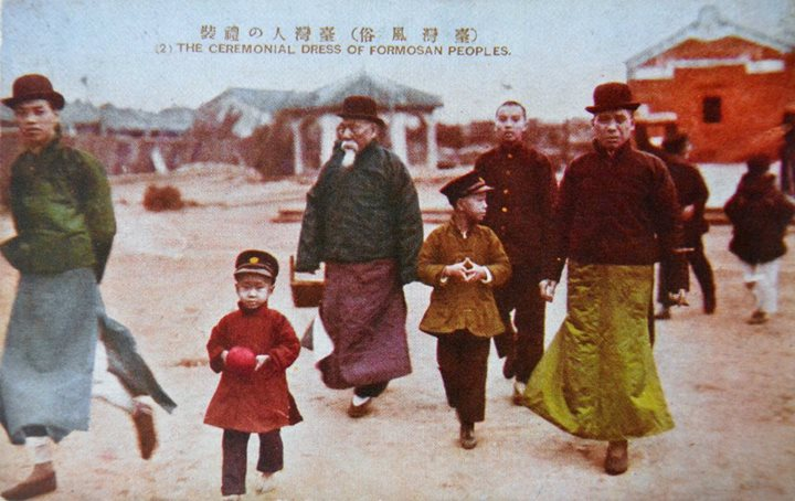 The ceremonial dress of Formosan Peoples when Taiwan was under Japanese rule.